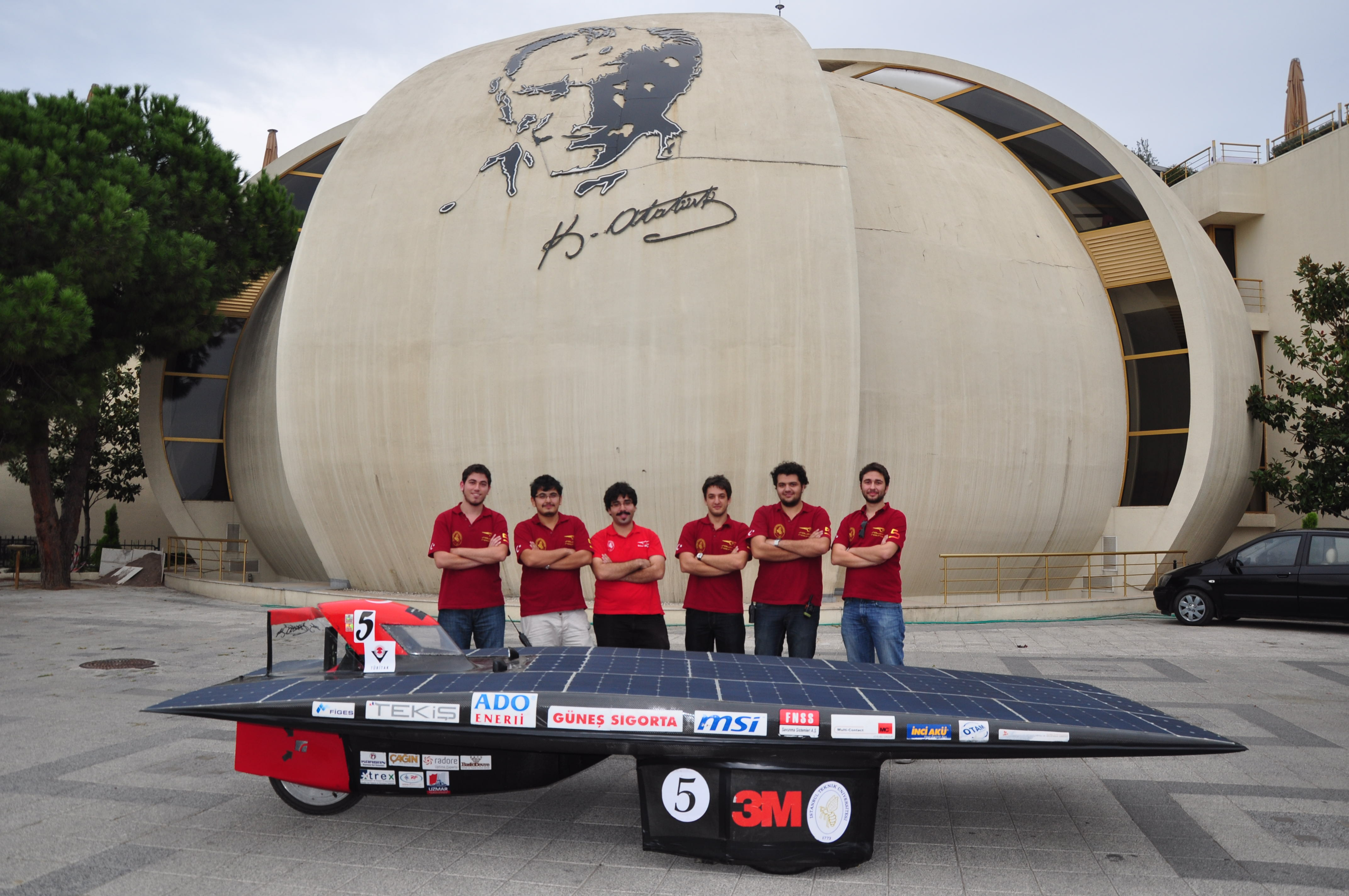 maltepe test sürüşü